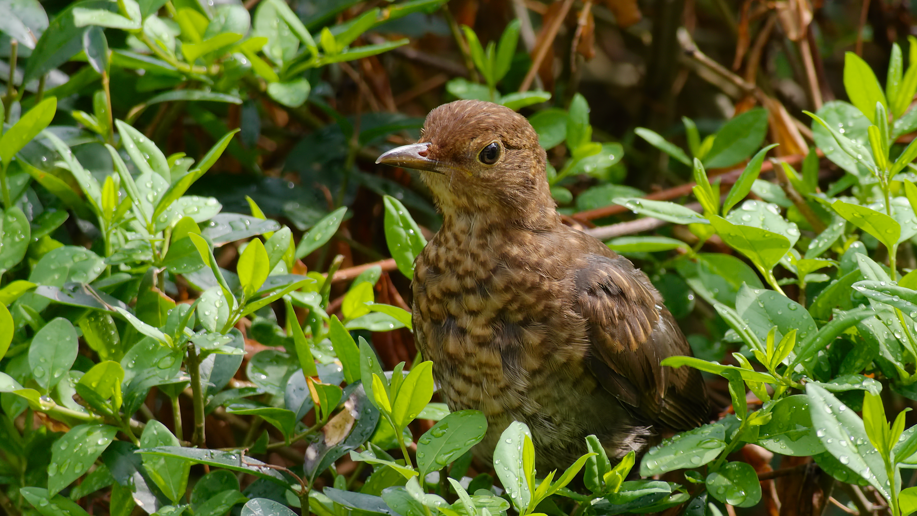 Common blackbird - Turdus merula, juvenile. Taken in Mannheim-Vogelstang, Baden-Württemberg, Germany.